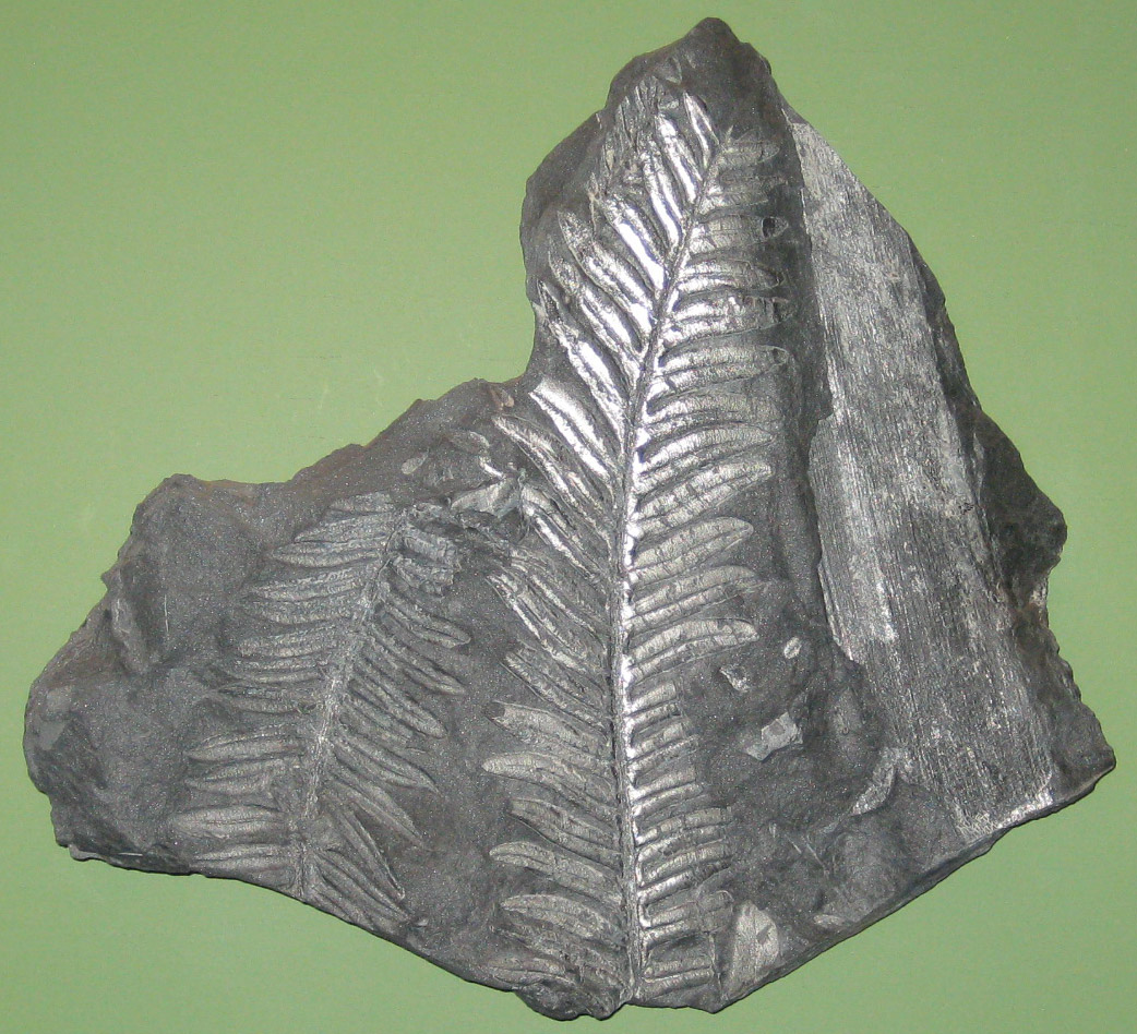 Fossil plant Alethopteris on display at the State Museum of Pennsylvania. Leaves appear bright due to flash.